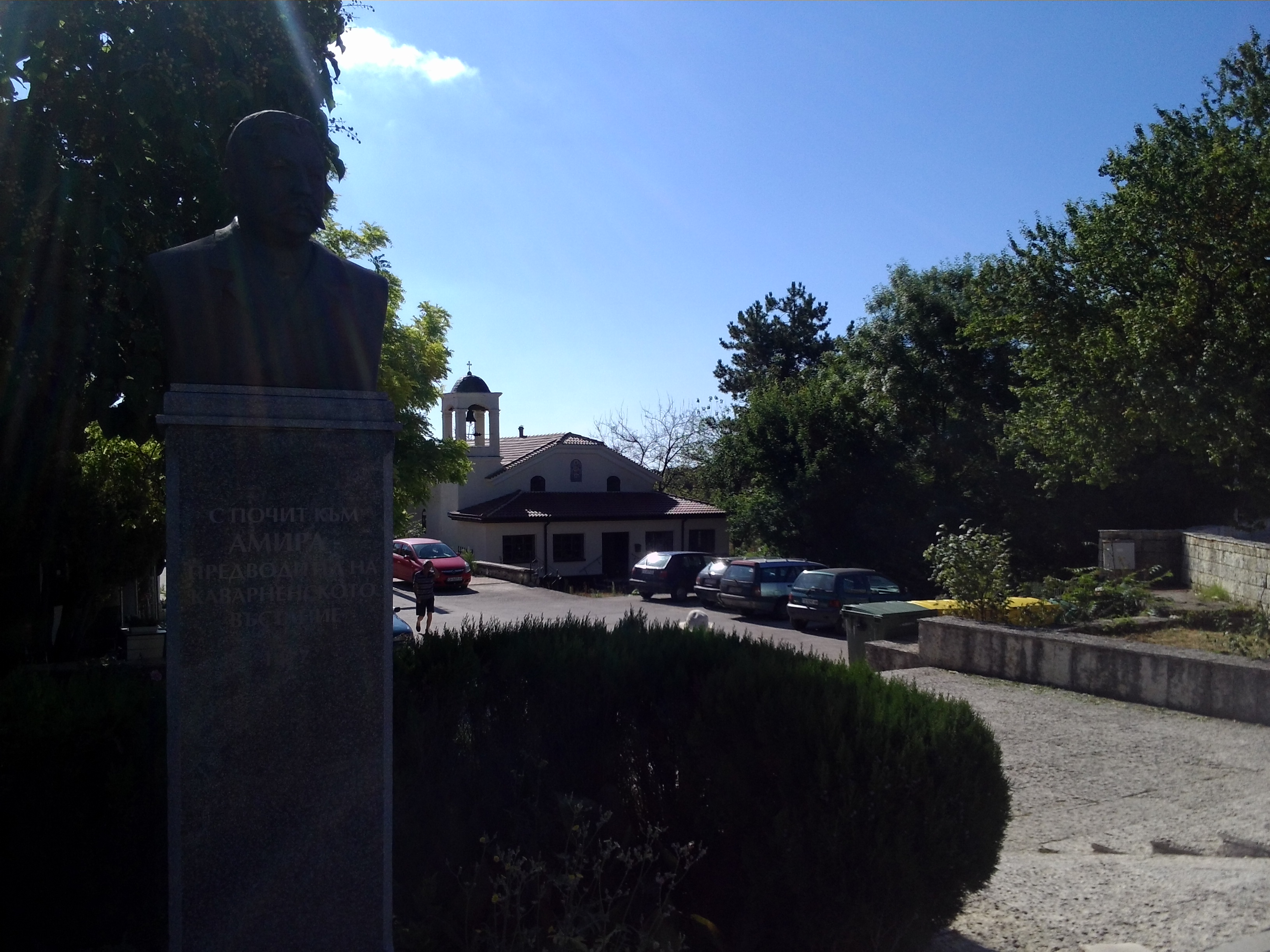 Monument and church in Kavarna, Bulgaria